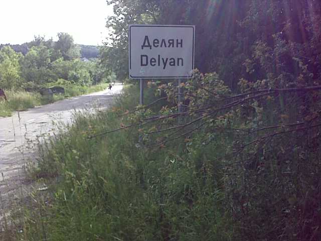 Sign on the road to Delyan, Sofia Region